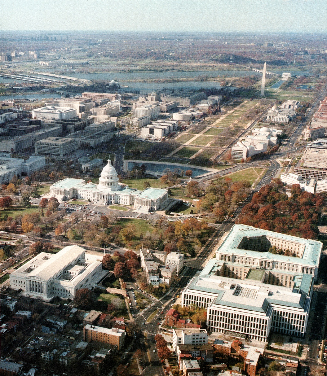 Aerial view of Capitol Hill and the National Mall, Washington D.C..